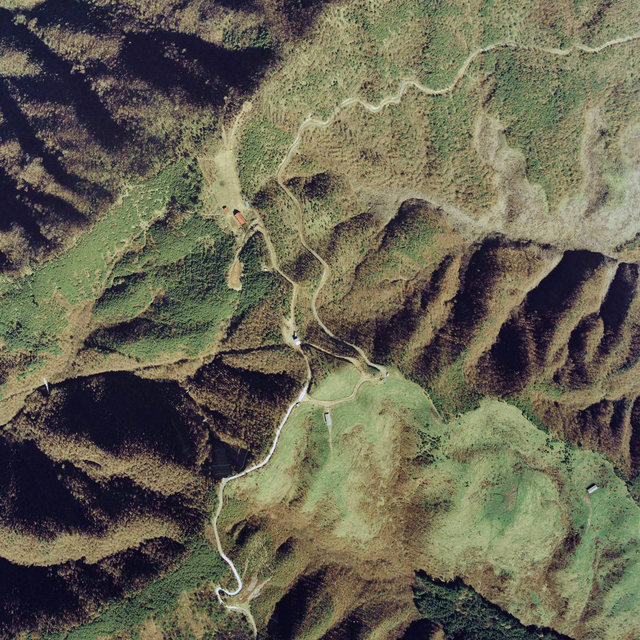 Mount Jimbagata (Nakagawa, Nagano).